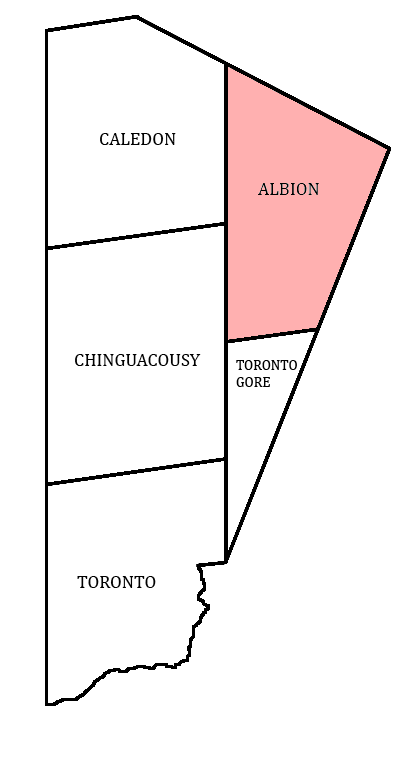 Locator map of Albion Township within Peel County